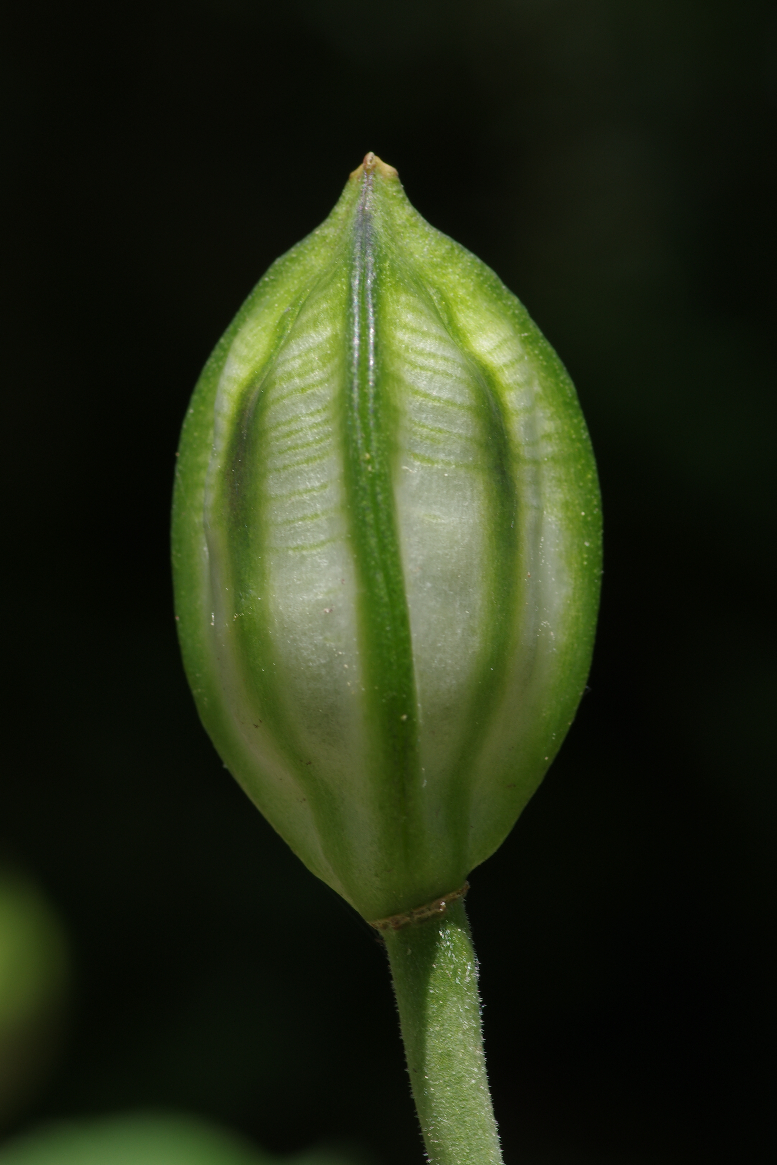 Fruit of Allium oreophilum at the ÖBG Bayreuth